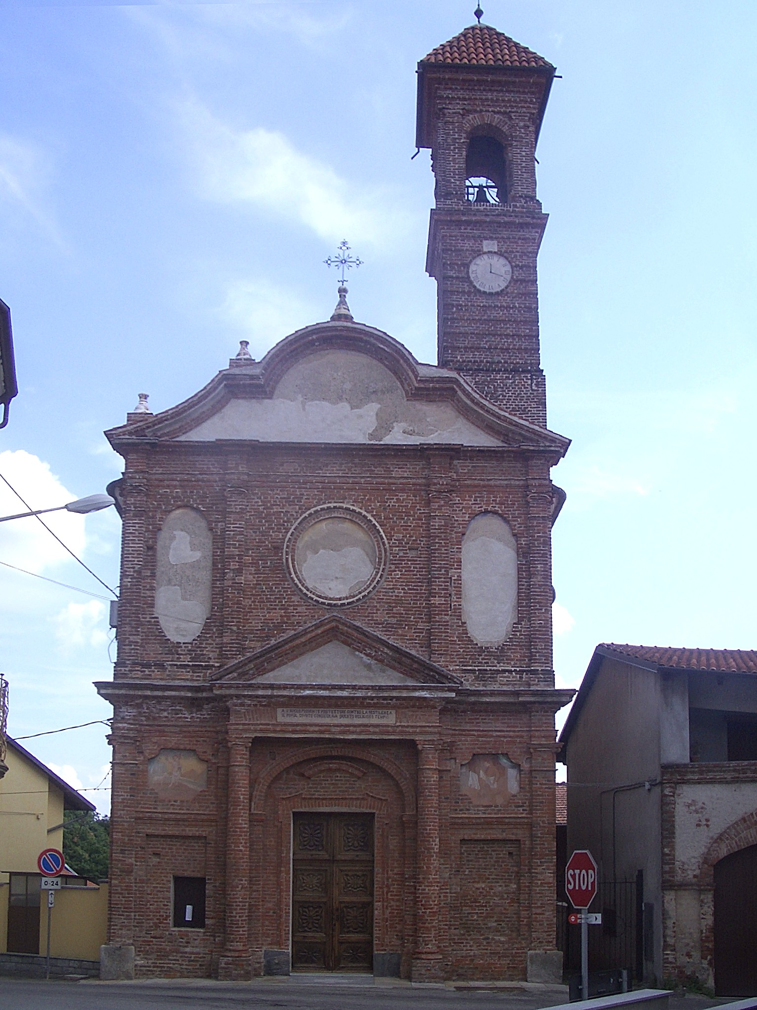 Orio Canavese, church dedicated tl St. Roch